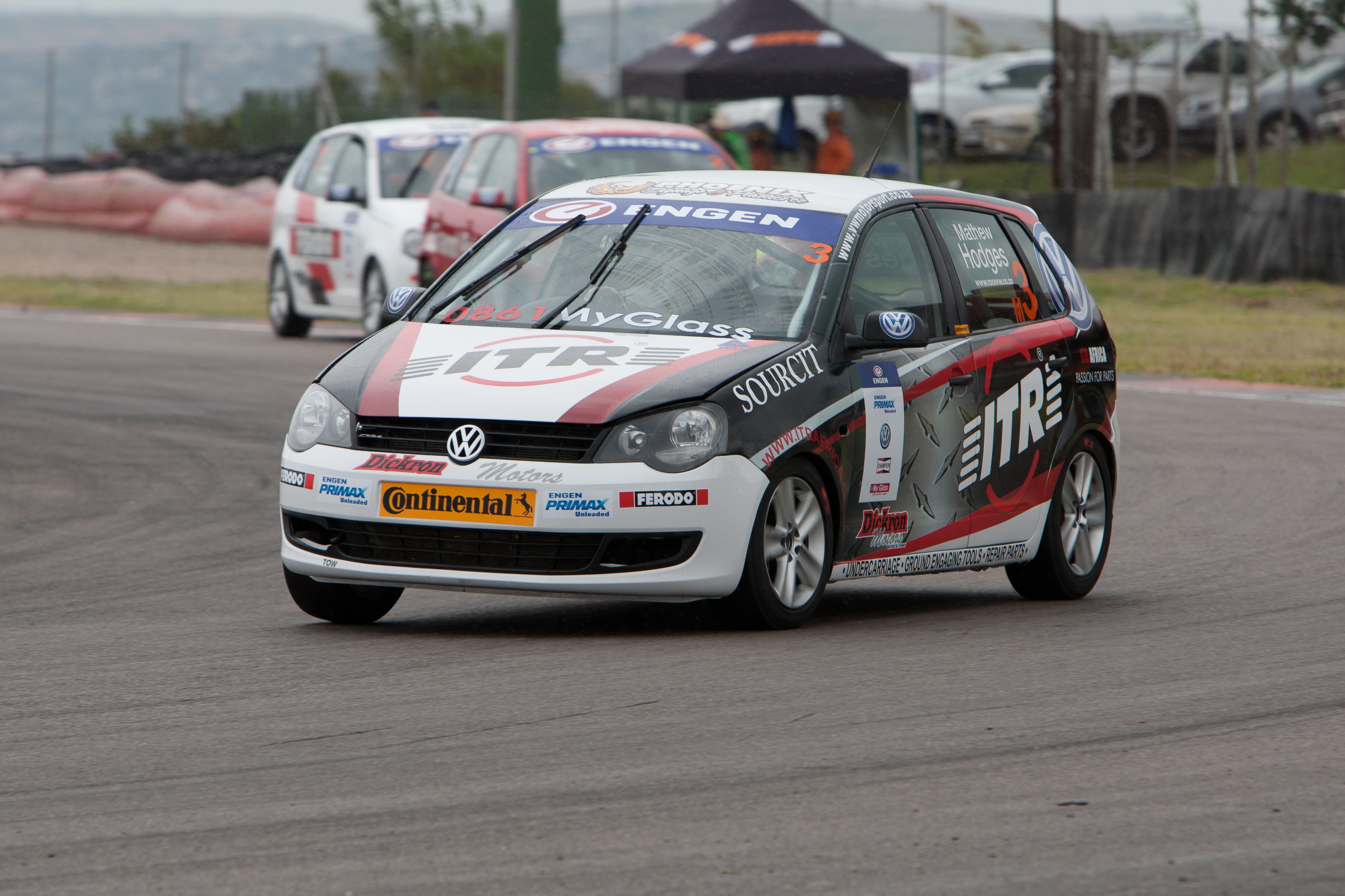 Image of a Volkswagen Polo Vivo during a race at the Zwartkop Raceway in Centurion, Pretoria, Gauteng, South Africa.